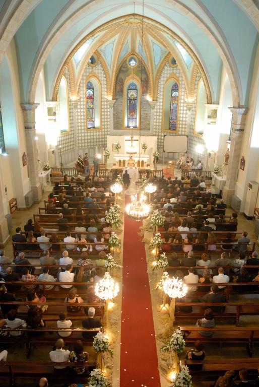 Inside the Church of St. Peter & Paul in Qornet Shehwan, Lebanon